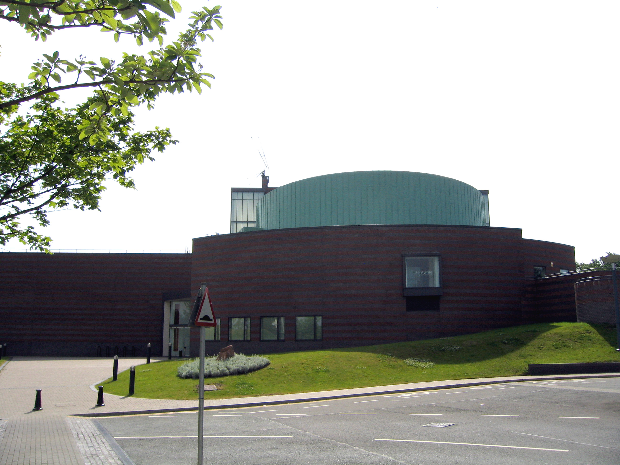 Photograph of the centre from the adjacent car park